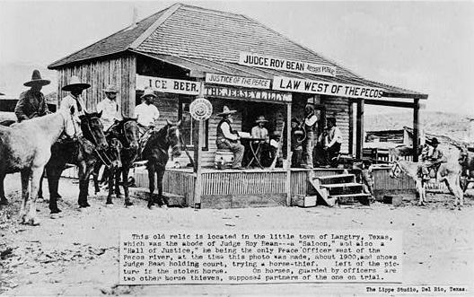 Saloon and Justice of the Peace office in Langtry, Texas.